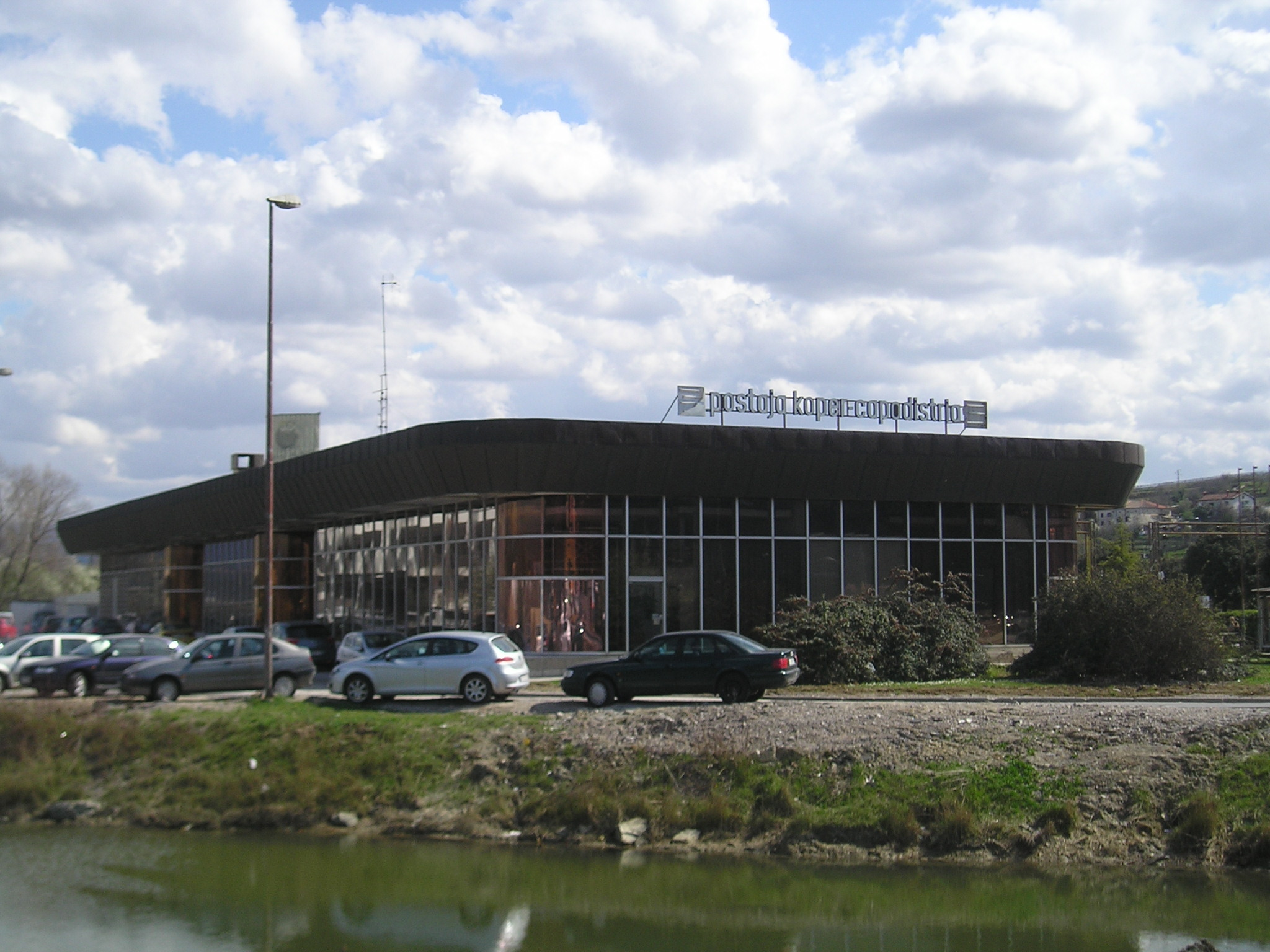 Passenger train station in Koper, Slovenia